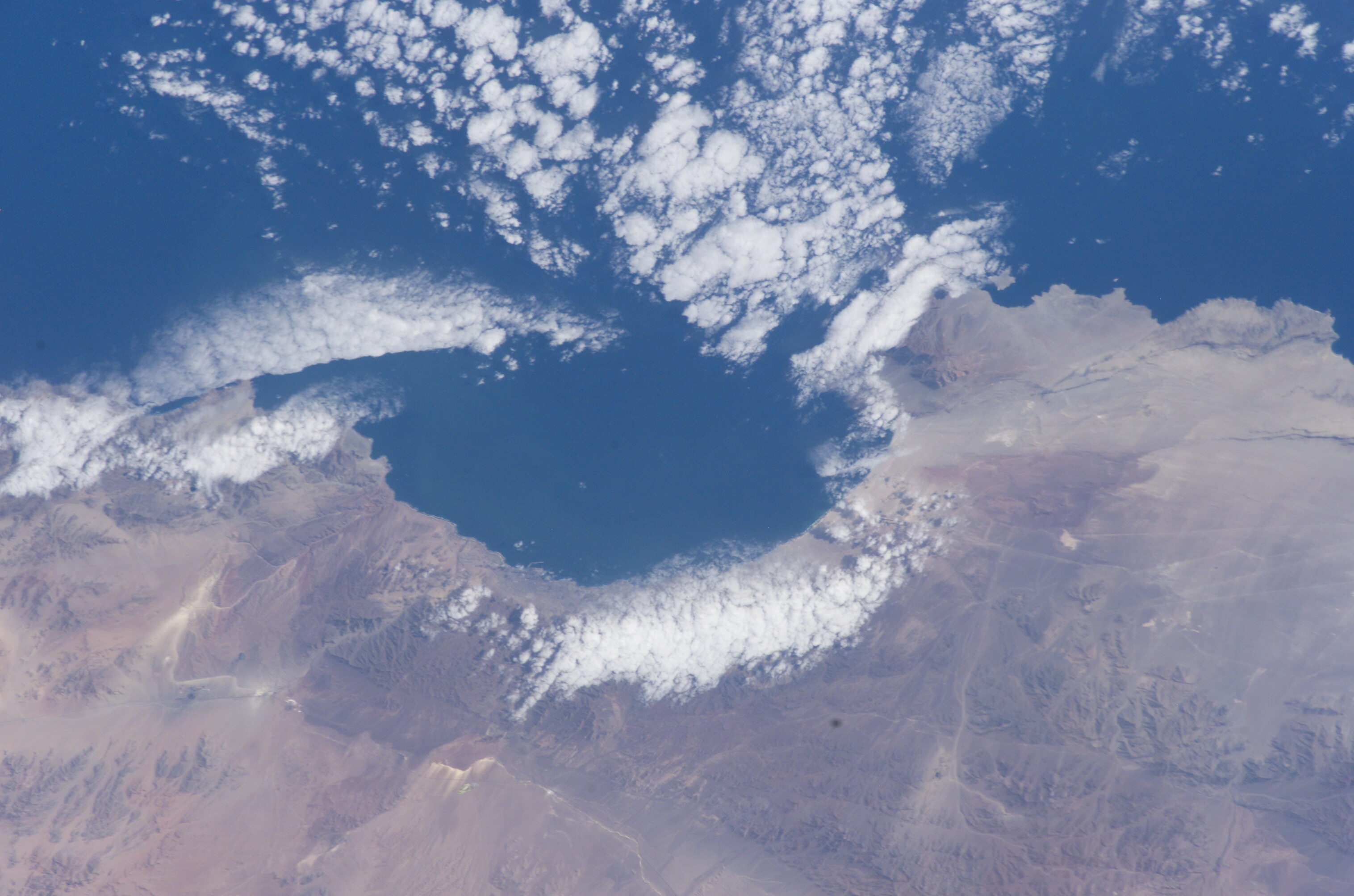 Satellite picture of Antofagasta.